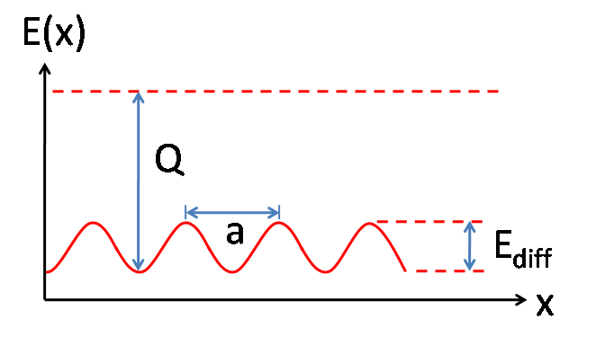 Diagram of the energy landscape for diffusion in one dimension. x is displacement; E(x) is energy; Q is the heat of adsorption; a is the spacing between adjacent adsorption sites; Ediff is the barrier to diffusion. Prepared using Microsoft Powerpoint 2007.